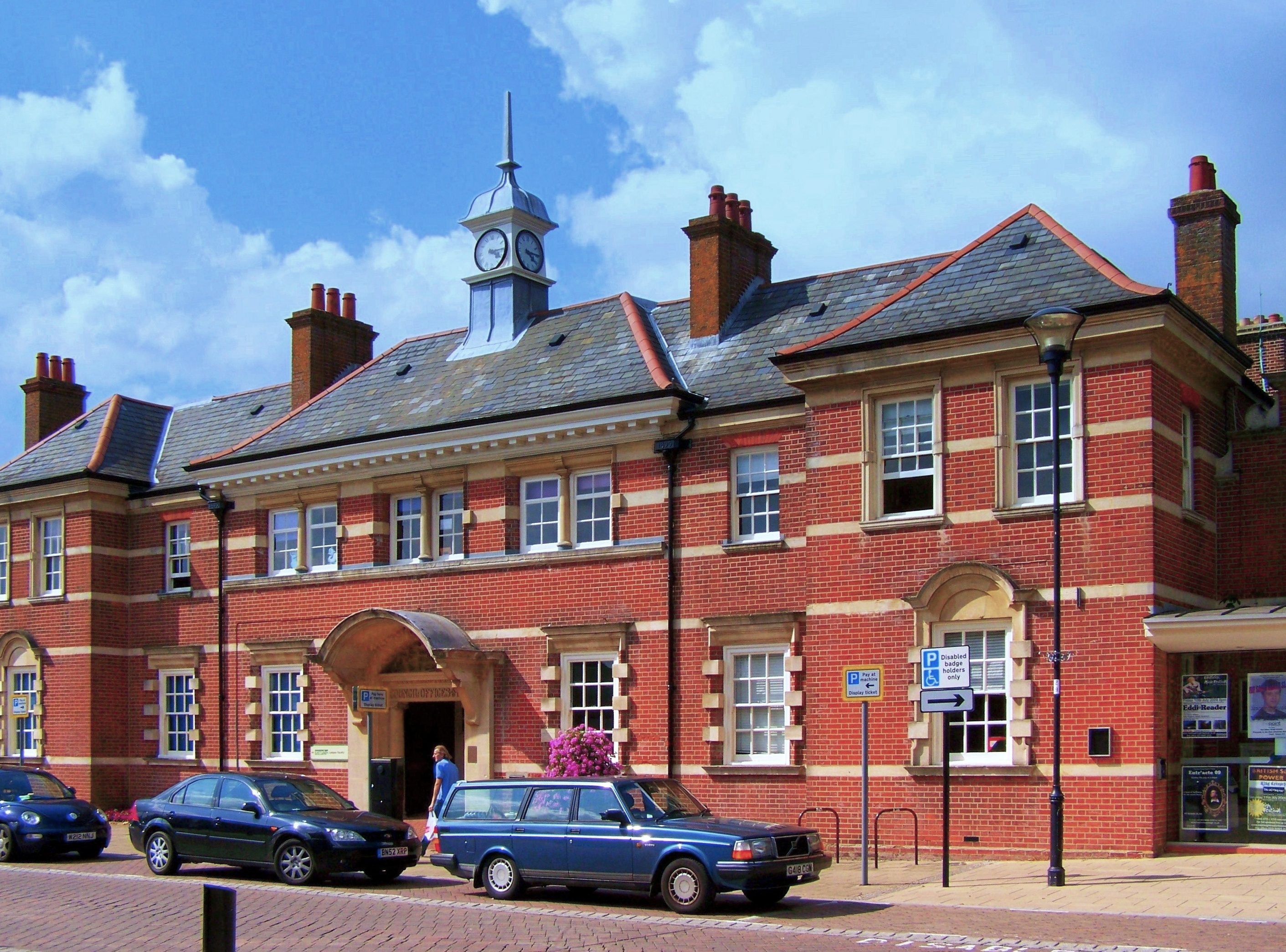 Old Town Hall (now called The Point), Eastleigh, Hampshire, UK